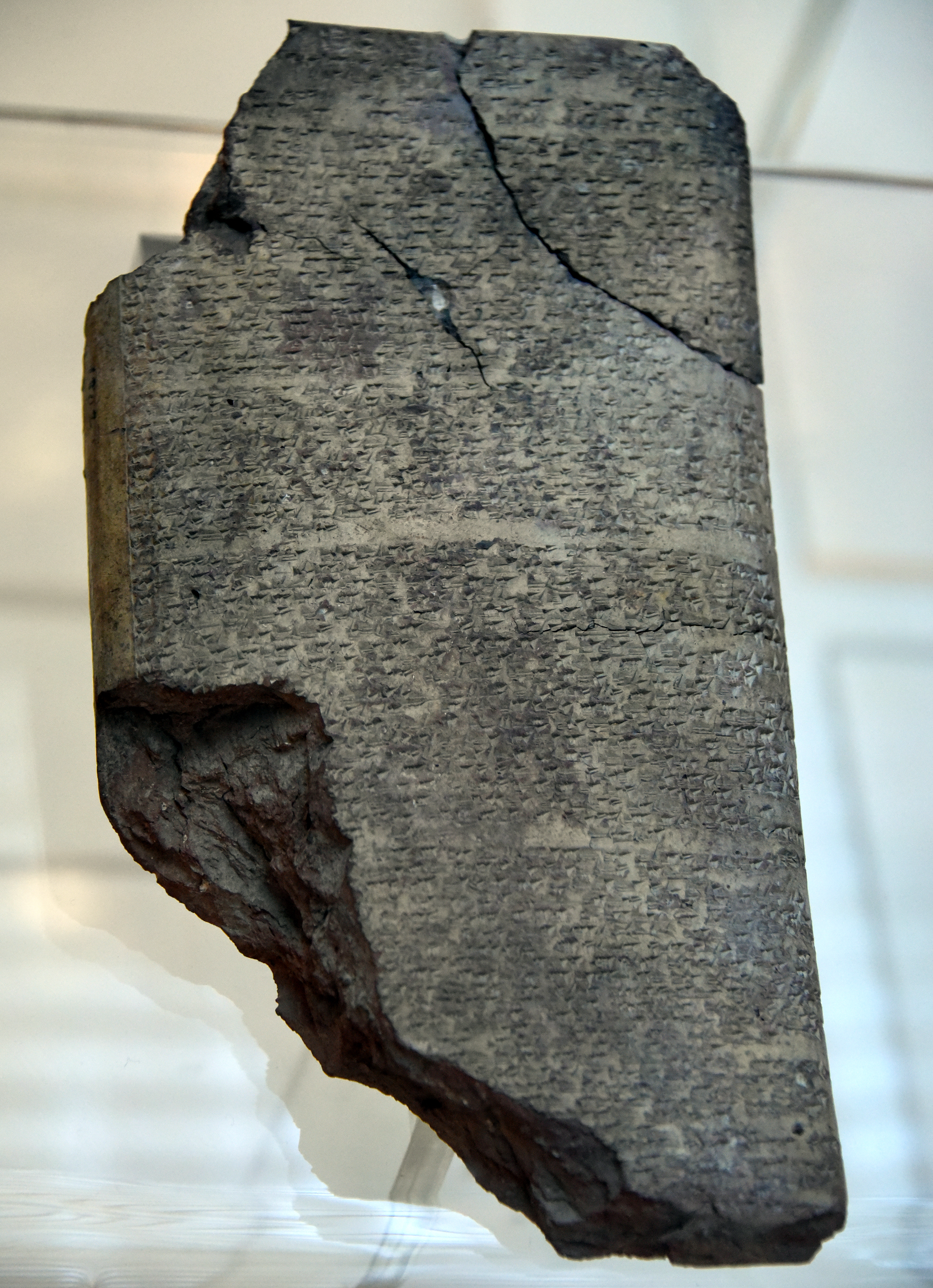 This clay table was a letter from the Hittite King Hattusili III to the Kassite King of Babylon Kadasman-Enlil II. 13th century BC. From Hattusa (Bogazkoy), in modern-day Turkey. The Museum of Archaeology, Istanbul, Republic of Turkey.